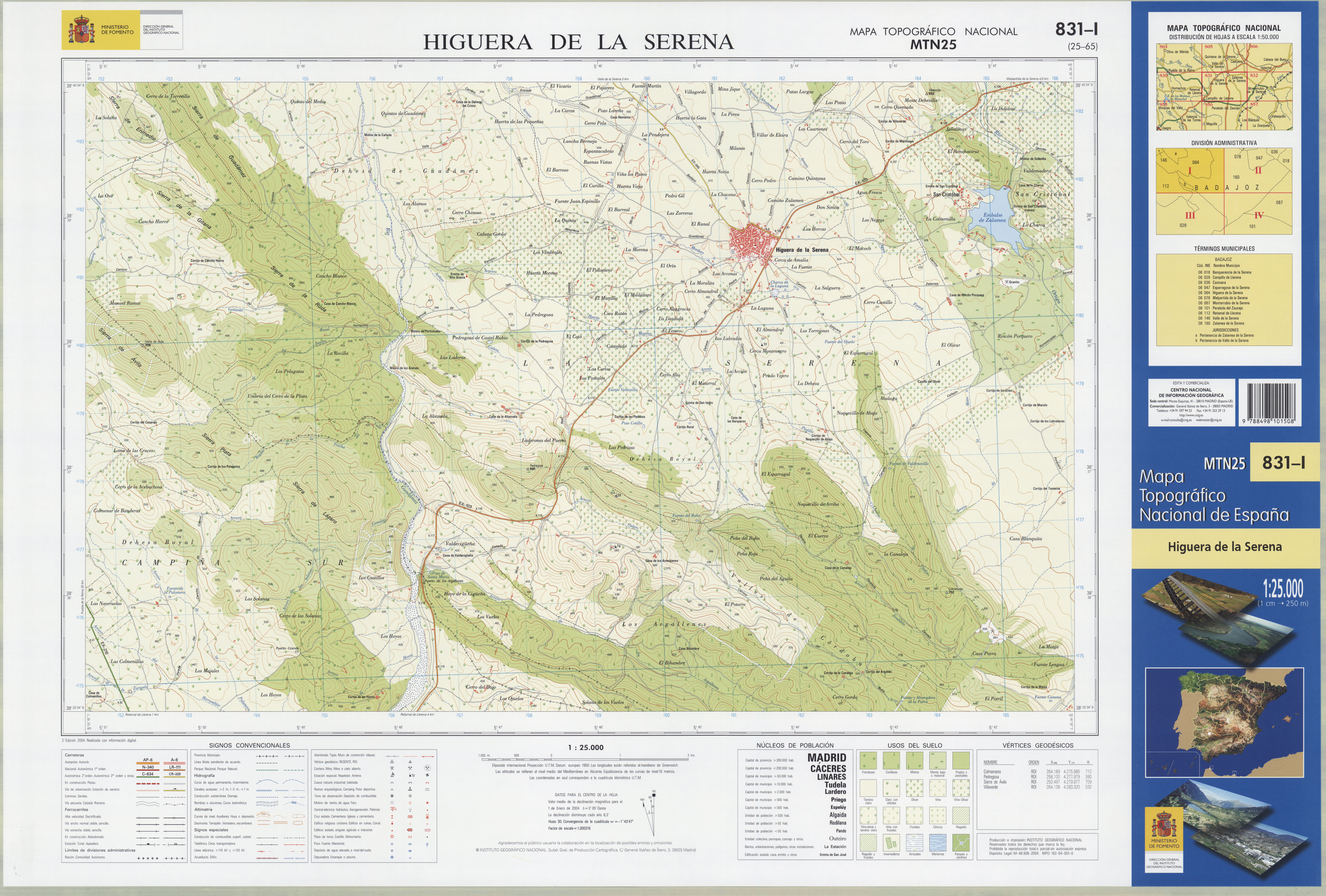 Fragment 0831c1 of the National Topographic Map of Spain in 2004 at a scale of 1:25000 printed and scanned with a resolution of 250 ppi. It shows Higuera de la Serena.